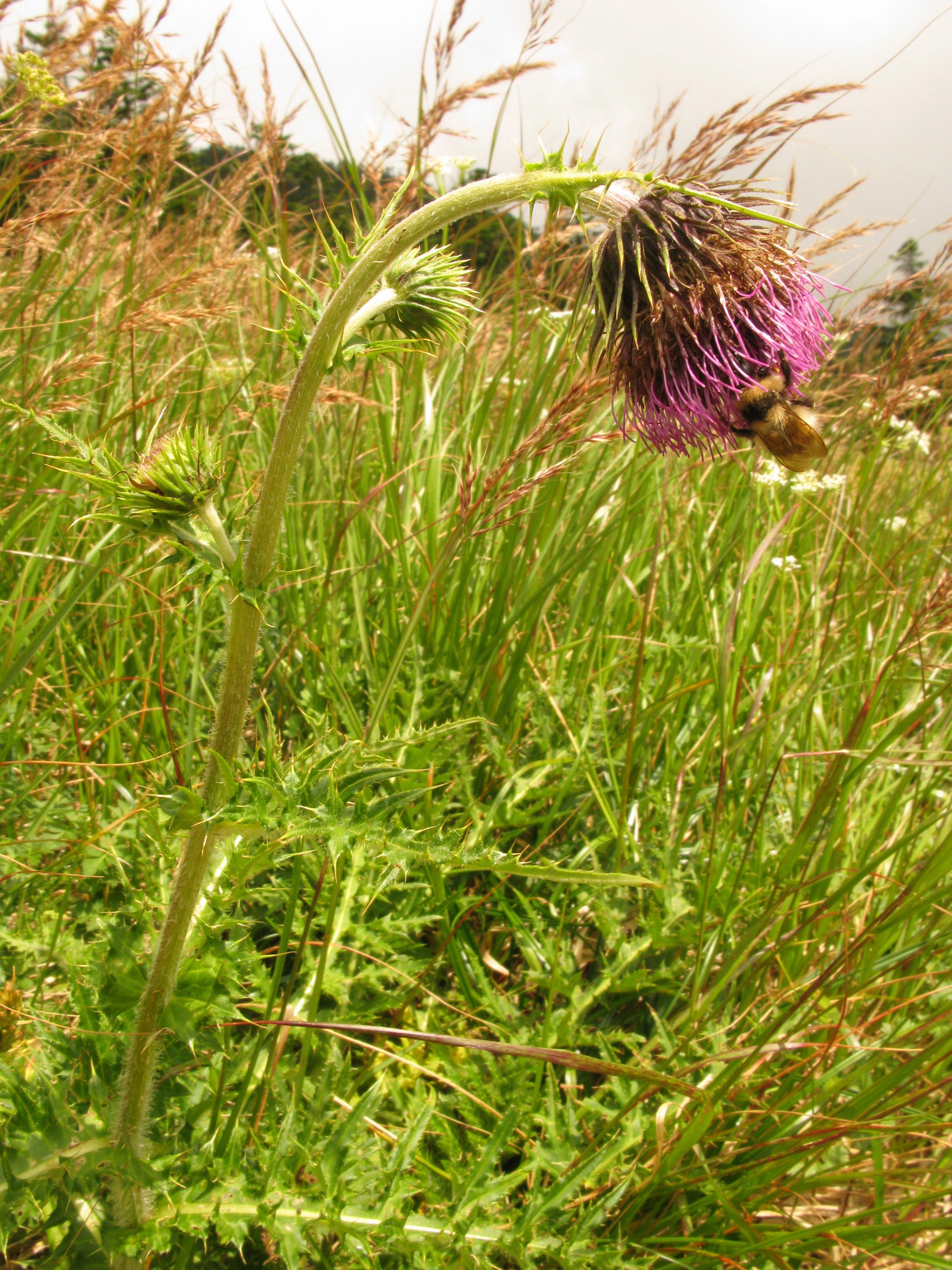 Cirsium_nambuense,Mt.Nishiazuma-yama,Fukushima pref.,Japan